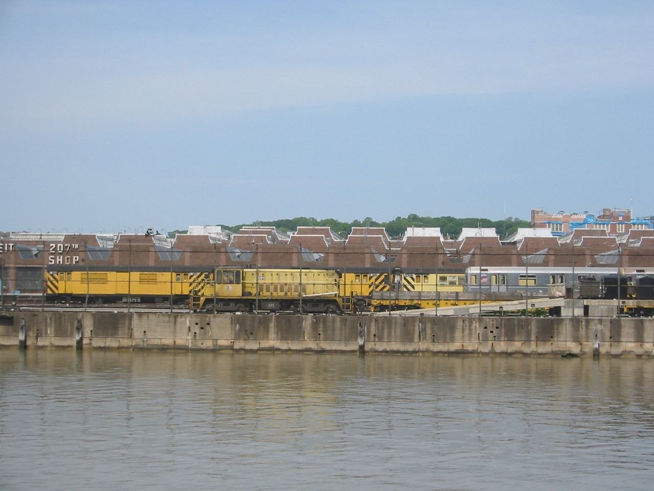 en:207th Street Yard from across the Harlem River.